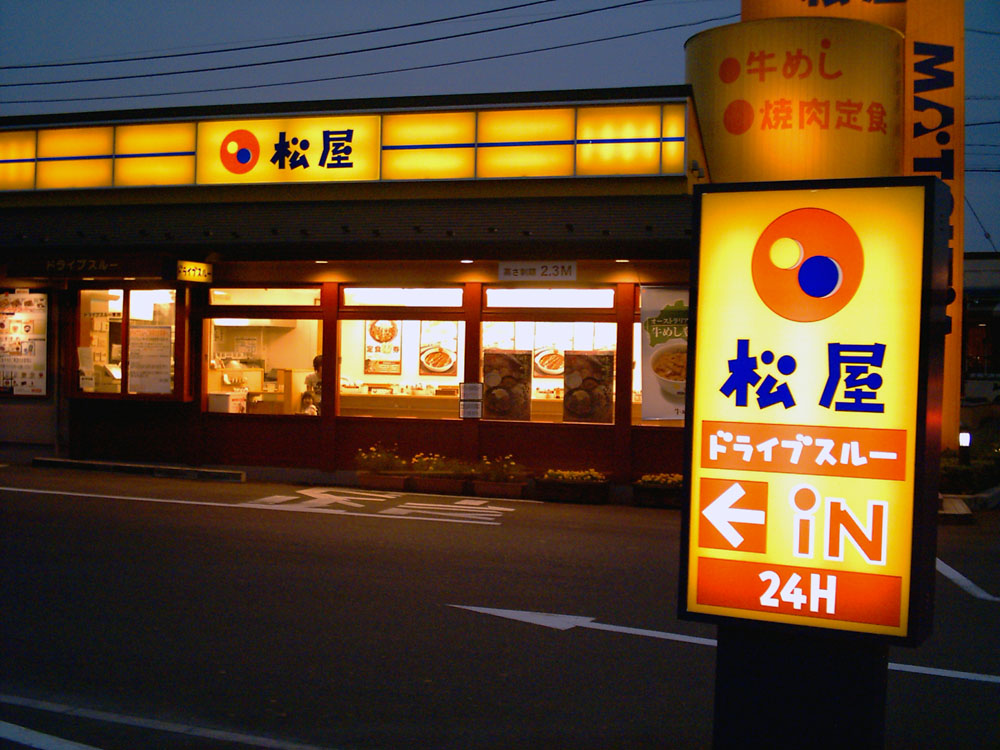 MATSUYA_FOODS_in_Japan photography day, 2006/10/20 photography person kici